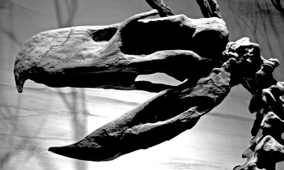 Skull of the terror bird Paraphysornis brasiliensis